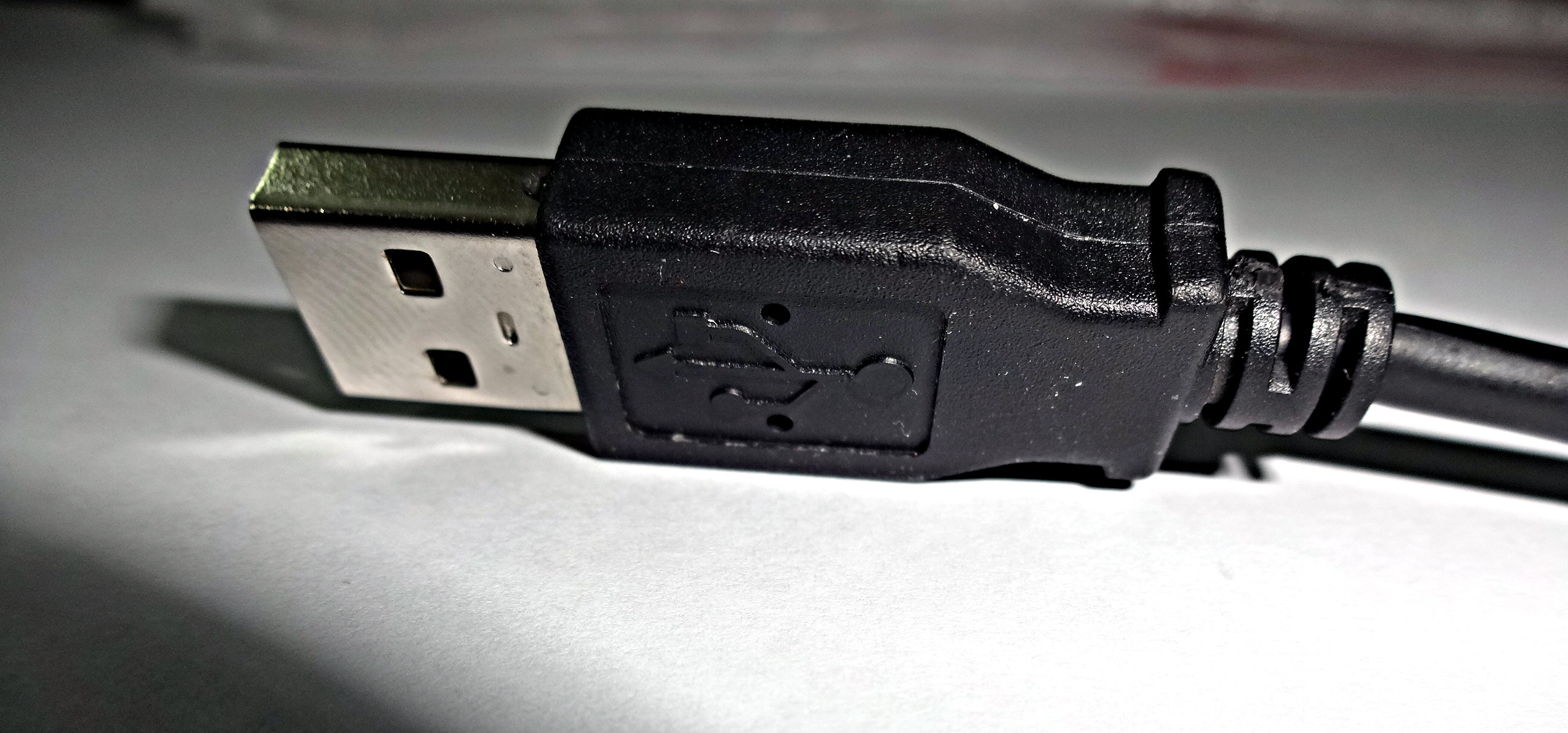 Usb head Cable